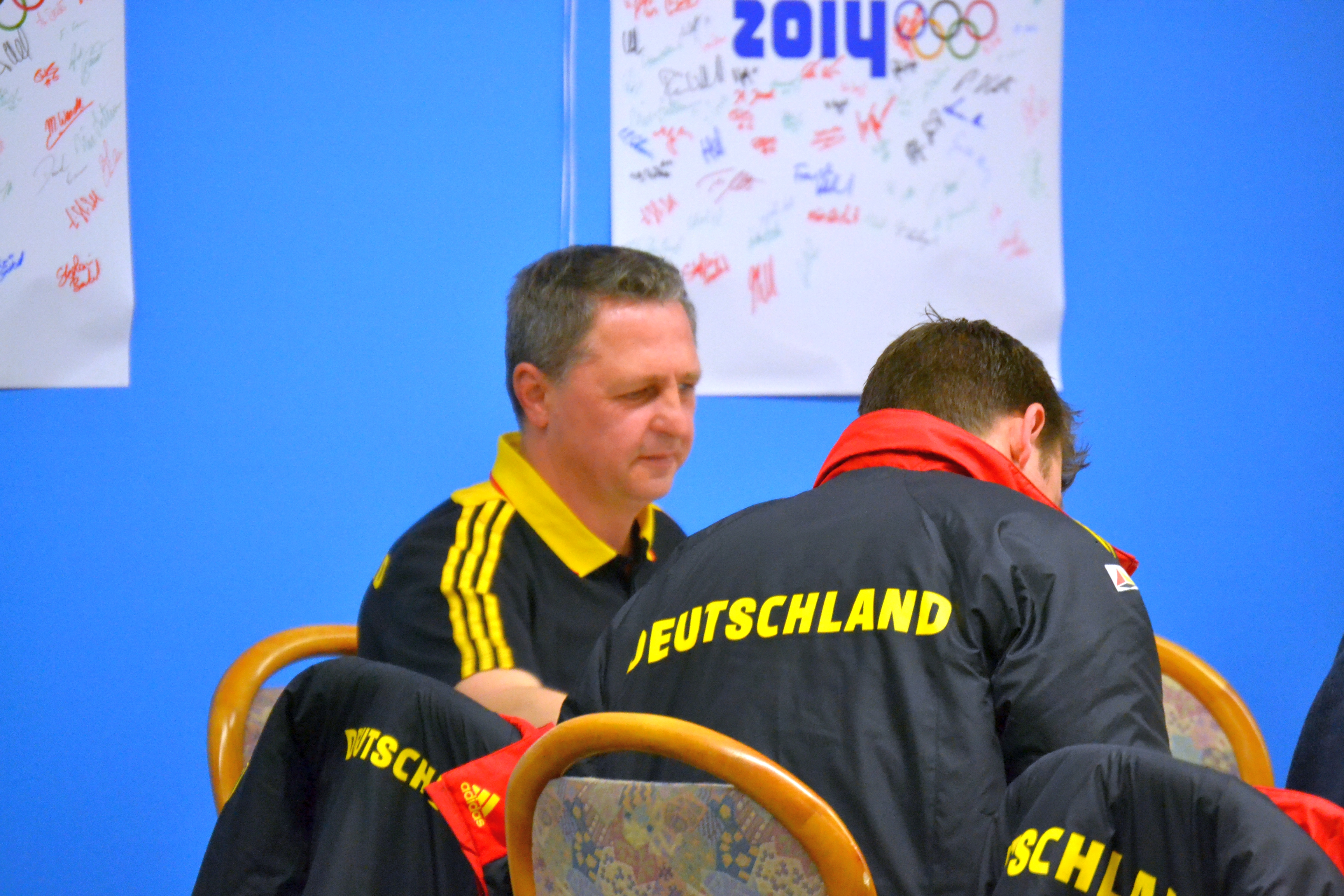 Outfitting the Olympic teams of Germany 2014; Media day January 20th 2014 at Military Airport Erding.